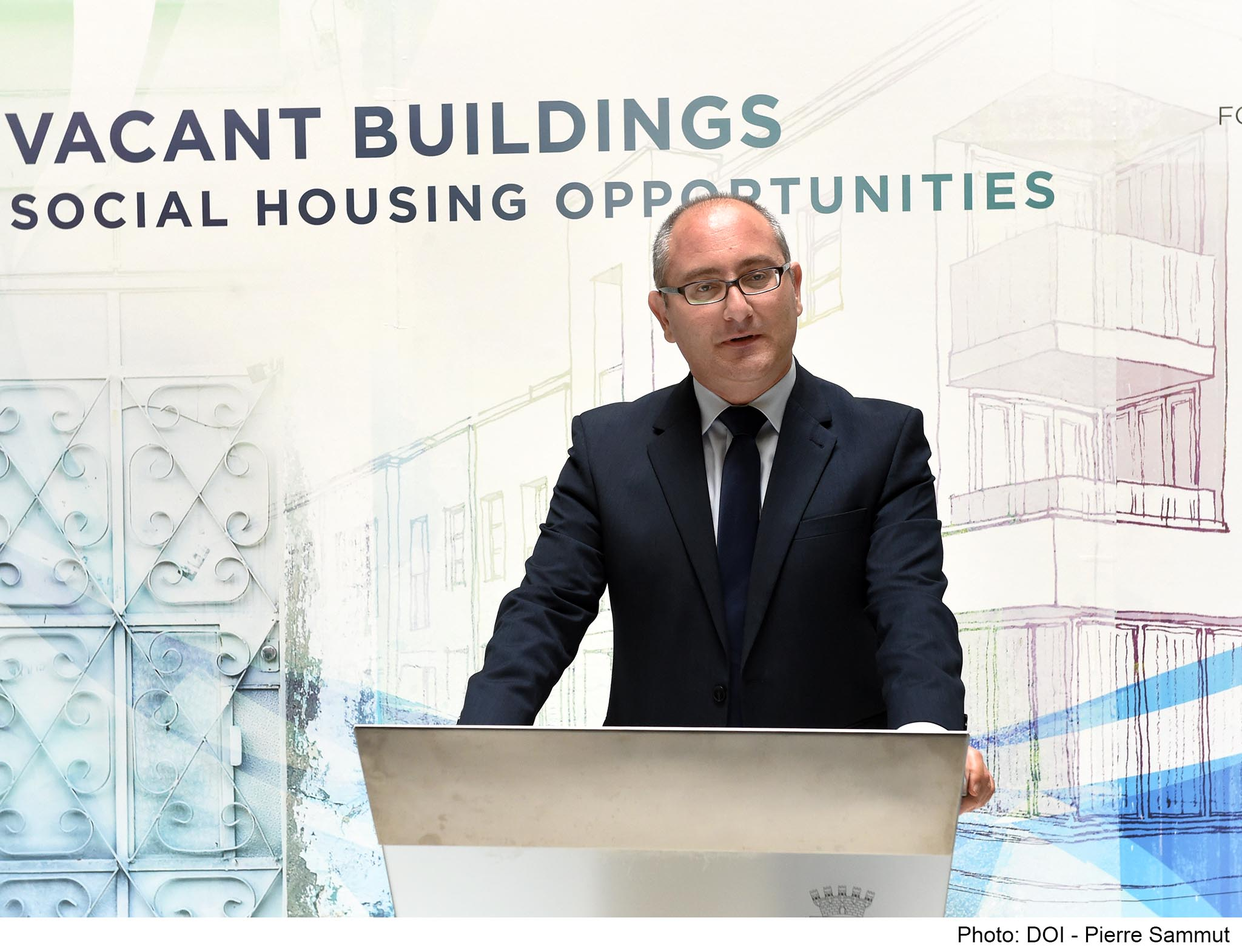 Malta Parliamentary Secretary for Social Accomodation Roderick Galdes